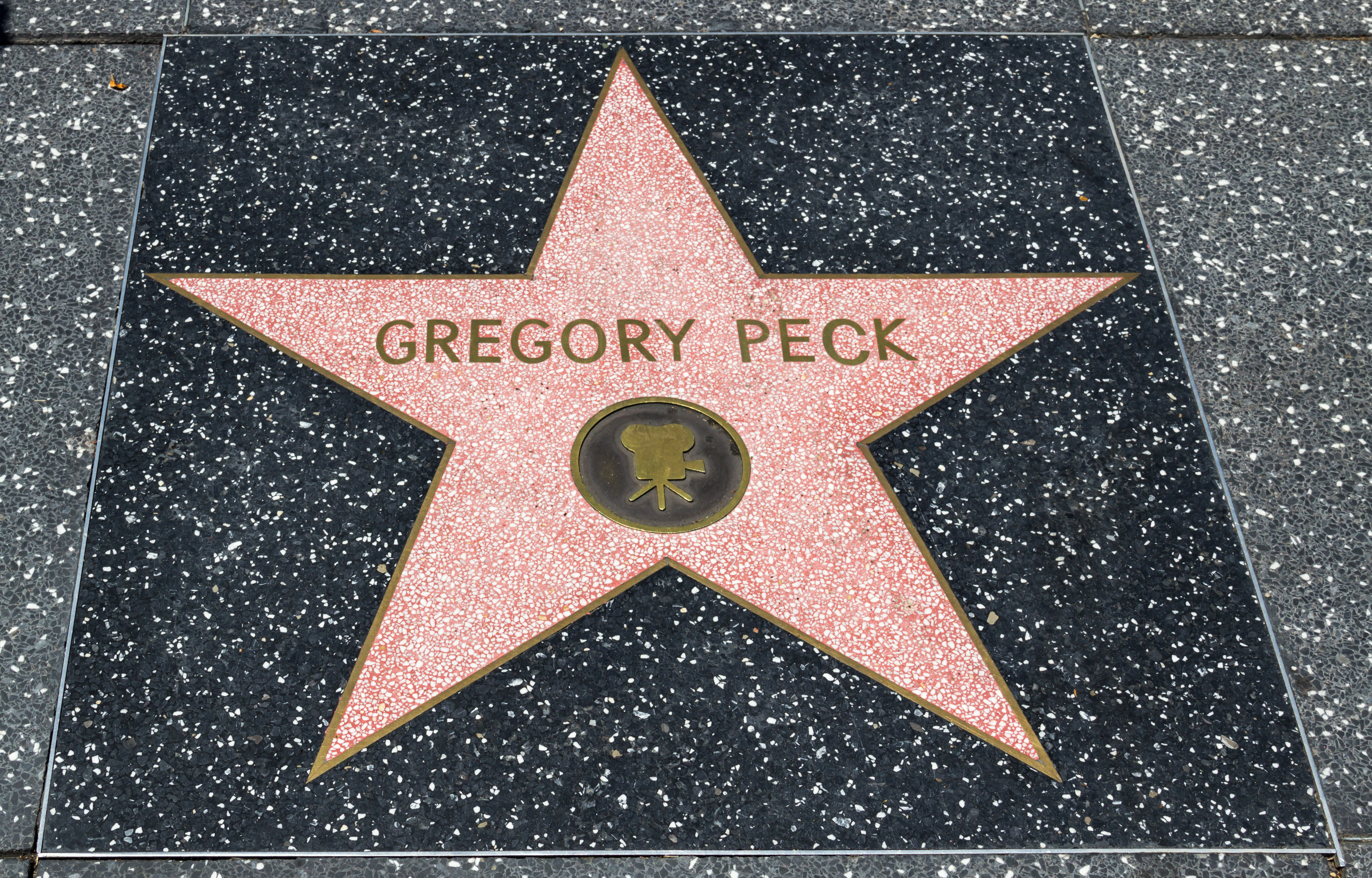 Star “Gregory Peck” at the Hollywood Boulevard in Los Angeles, California, USA